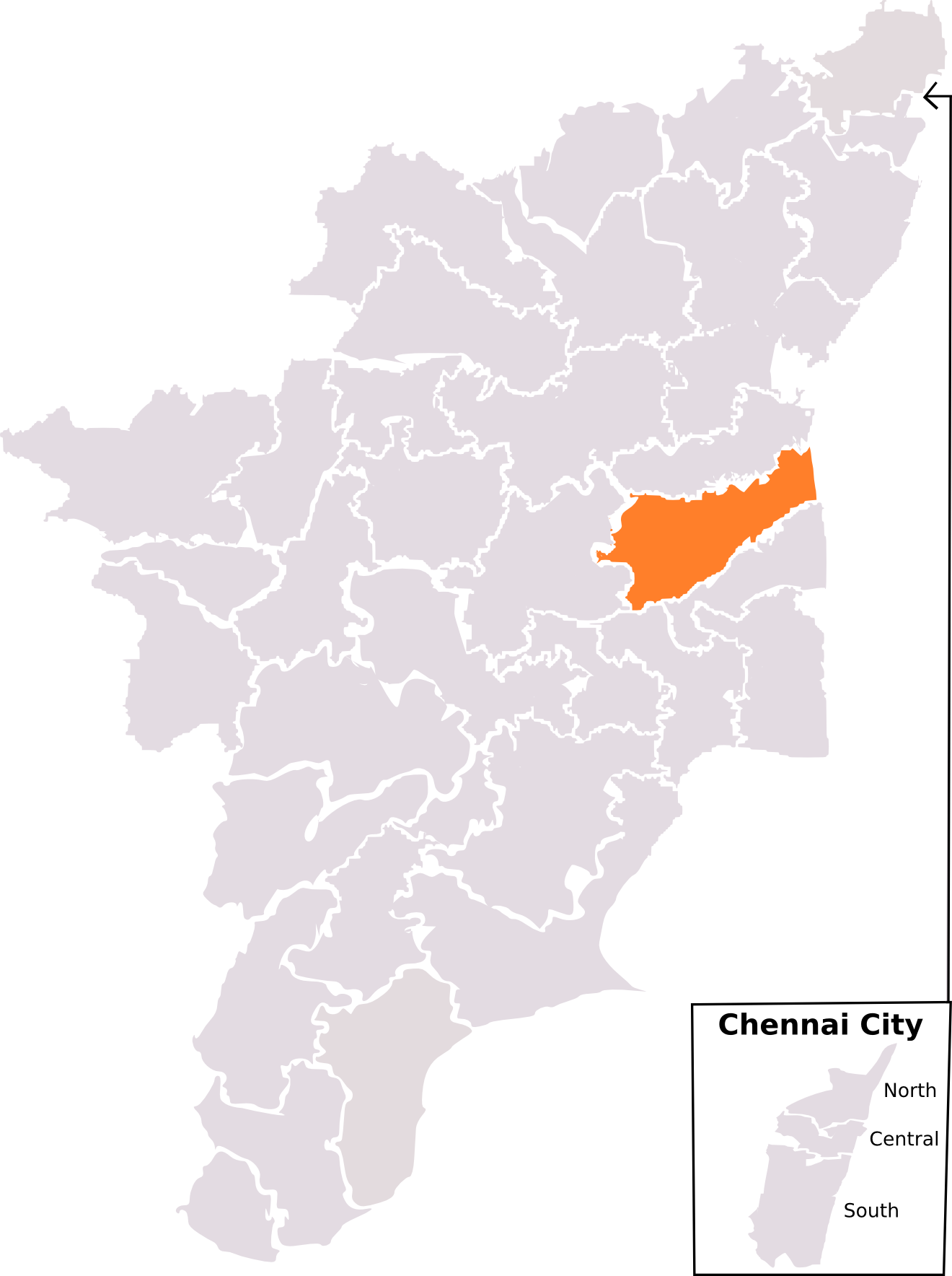 Lok Sabha Election map for Tamil Nadu. Map is based on ECI drawn map. Results are based on ECI website.